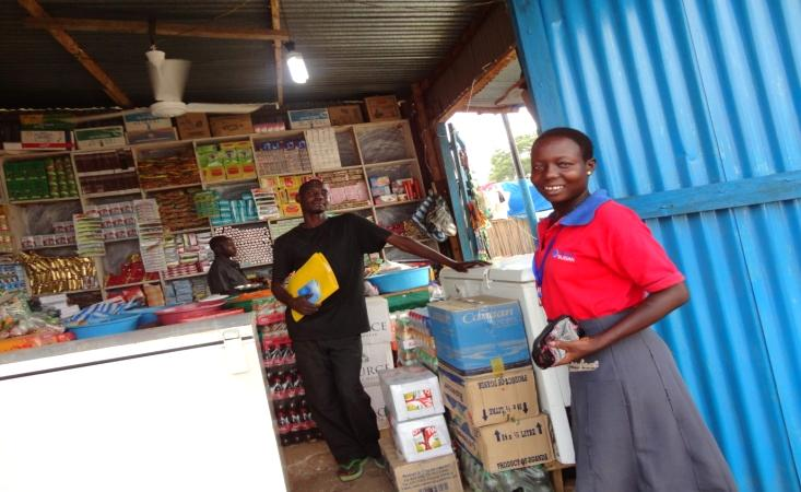 In order to strengthen the financial sector in South Sudan and help provide small entrepreneurs access to credit, USAID is funding the Finance Sudan Limited (FSL) Program, established in 2006 as one of the only microfinance lenders in the country. Since March 2010, the program has increased the number of clients it serves nearly fourfold--from 2,535 to 9,385. Adam is one of FSL’s beneficiaries in Juba. In 2007 he earned his living as a driver. After four weeks of training on business management skills and the loan policies , he qualified for his first loan cycle of 1,000 Sudanese pounds, an equivalent of $350 and the maximum amount a new client could receive. With the loan, he opened his own shop and was so successful, he was able to finish paying off his first loan in six months. Now, Mr. Abraham is finishing repayment of a second loan of 2,000 Sudanese pounds ($700) to grow his business and he will be able to access a third loan in the coming months. “The loan of 2,000 Sudanese pounds I am currently servicing has significantly multiplied my market’s stock and, through FSL, I am also opening another business. Now I am able to feed my family well out of the increased profits of the two businesses.” Adam plans to diversify his business by investing in the transport sector. (FSL)